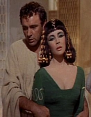 Cropped screenshot of Richard Burton and Elizabeth Taylor from the trailer for the film Cleopatra.